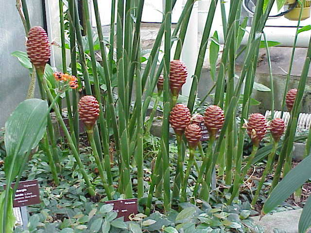 Species: Zingiber macradenium Family: Zingiberaceae Image No. 1